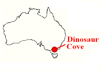 The Dinosaur Cove (dinosaurs searching site) location, in Australia.